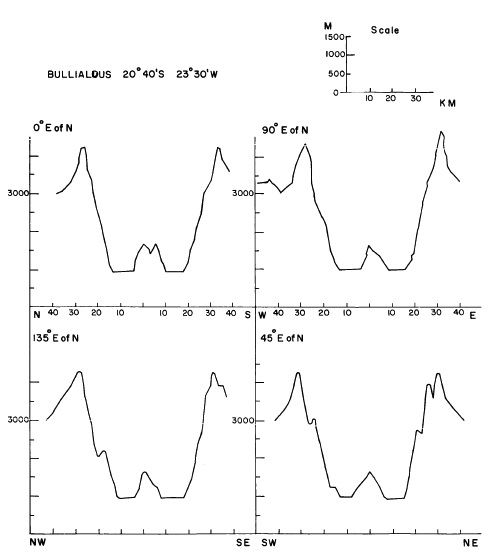 Bullialdus crater cross section